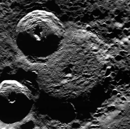 Rizal crater on Mercury, with Kirby crater in upper left and Jiménez crater in lower left. MESSENGER Wide Angle Camera image. North is at top. Width is approximately 84.7 km at bottom. Emission Angle: 0.2 Incidence Angle: 82.8 Latitude: 82.6 Longitude: 212.8 Phase Angle: 82.8